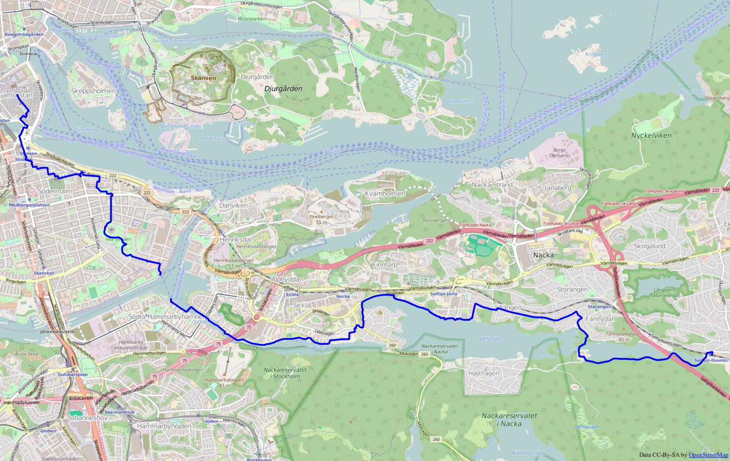 The Saltsjö-Duvnässtråket hiking trail in Stockholm, Sweden.